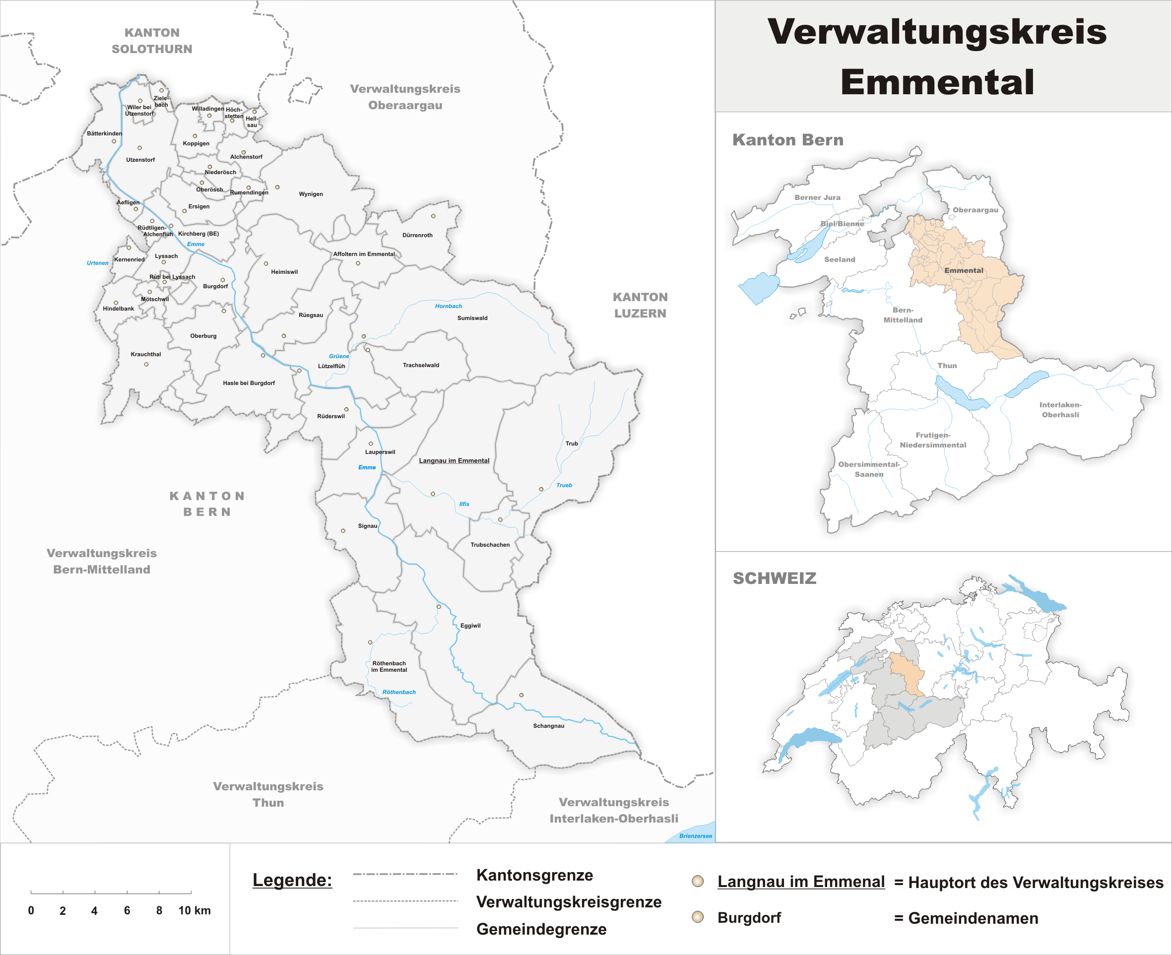 Municipalities in the district of Emmental